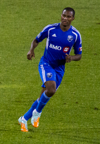 Patrice Bernier of the Montreal Impact in a Major League Soccer match against Red Bull New York on 28 July 2012 at Stade Saputo in Montreal.